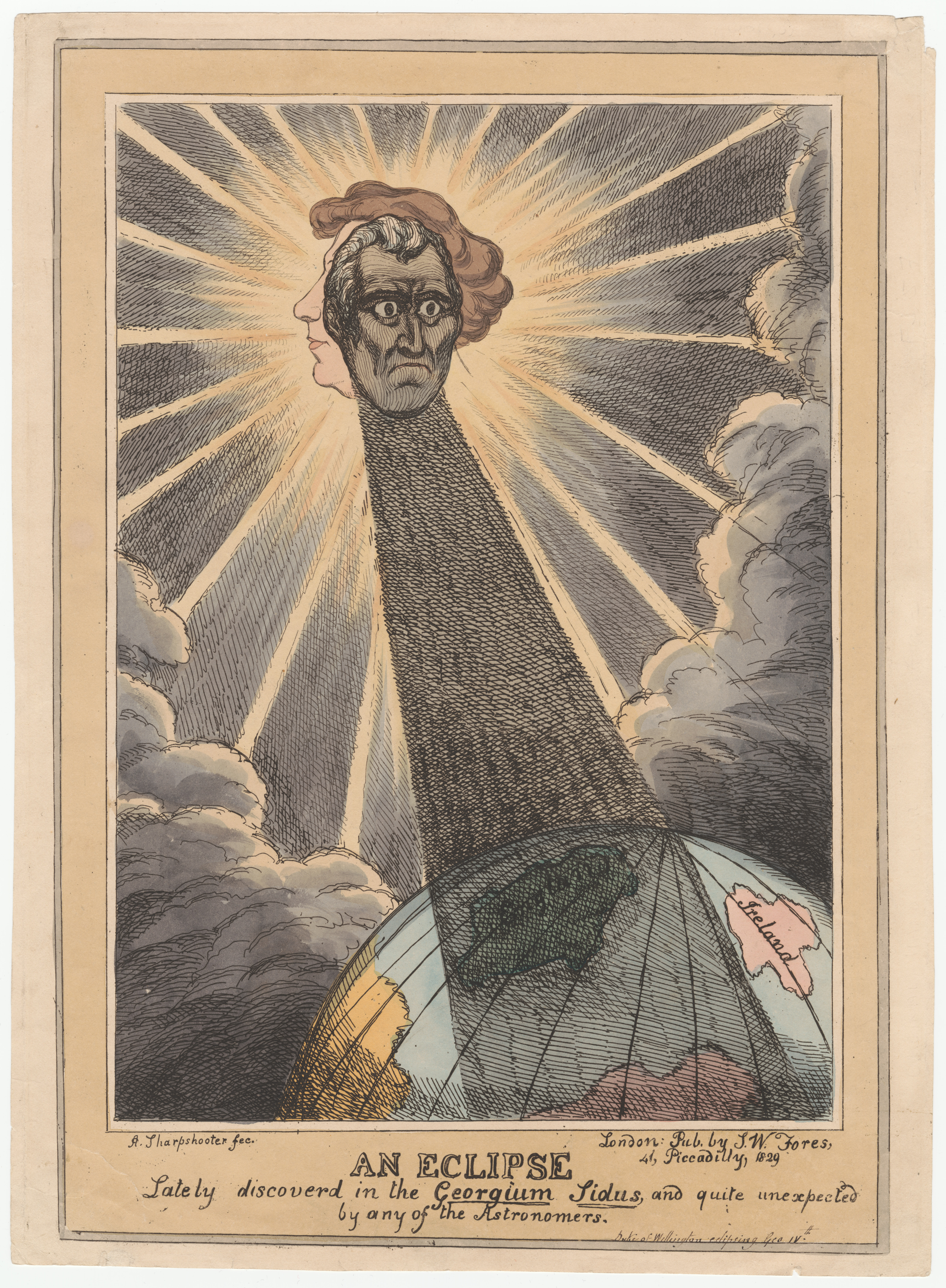 A satirical cartoon attacking the Duke of Wellington, then Prime Minister, for the passage in April 1829 of the Roman Catholic Relief Act.